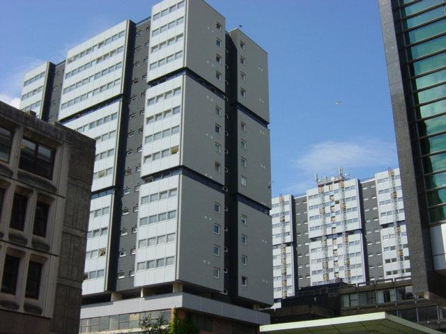 The multi-storey housing blocks of the Anderston Centre, Glasgow.